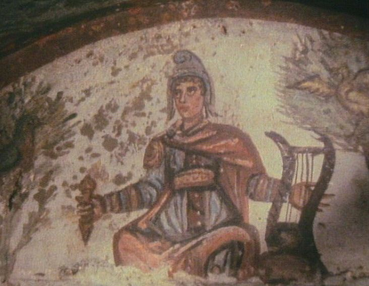 Christ as Orpheus in mural painting at Catacombs of Santi Marcellino e Pietro, Rome, Italy ("Orpheus, taming the wild beasts with his lyre, symbolized the peaceful sway of Christ", Encyclopedia Britannica)